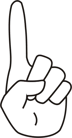 Hand expressing number 1